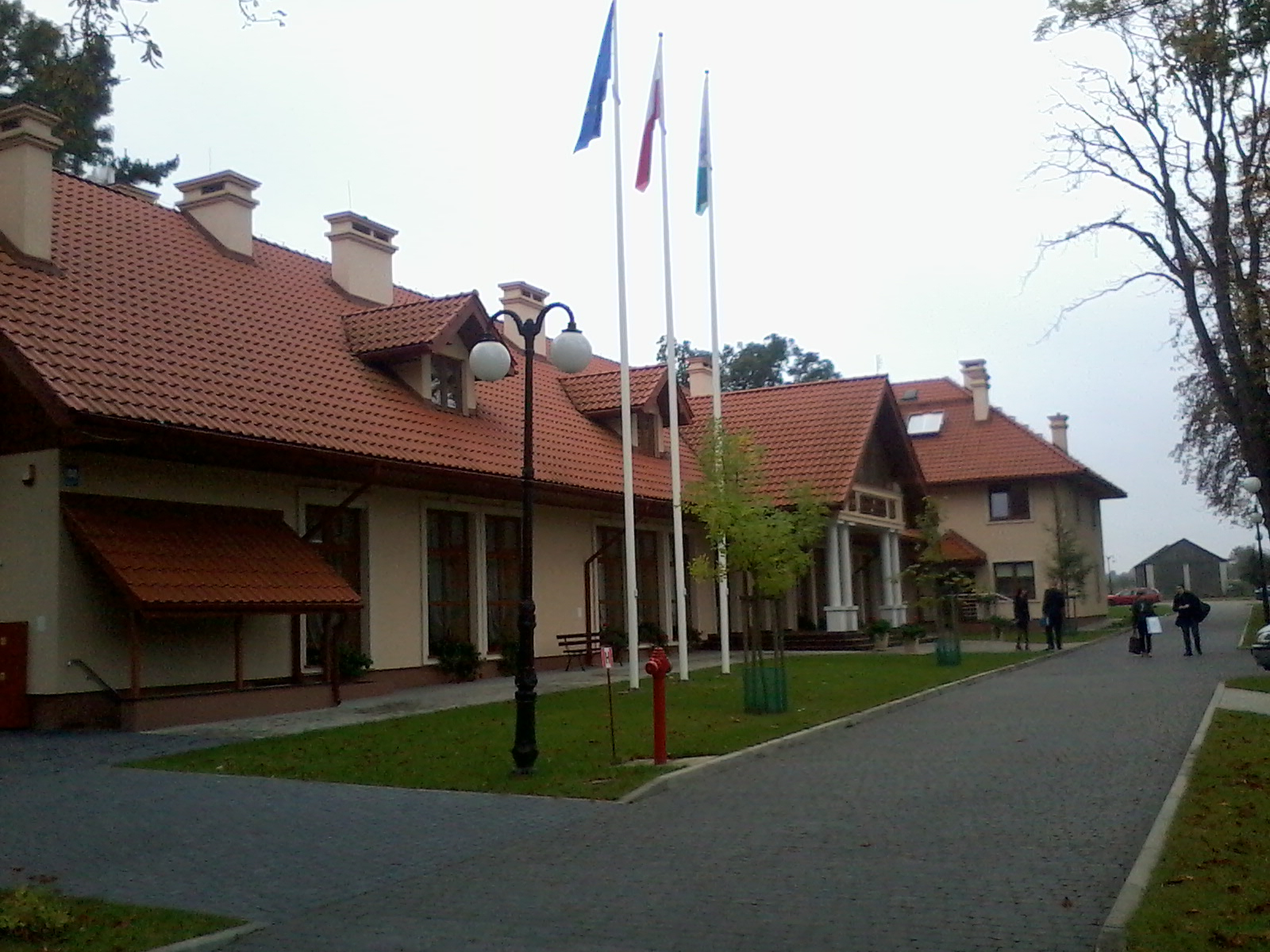 Depułtycze Nowe - Park near Center of International Cooperation - The State School of Higher Education in Chełm (Poland)